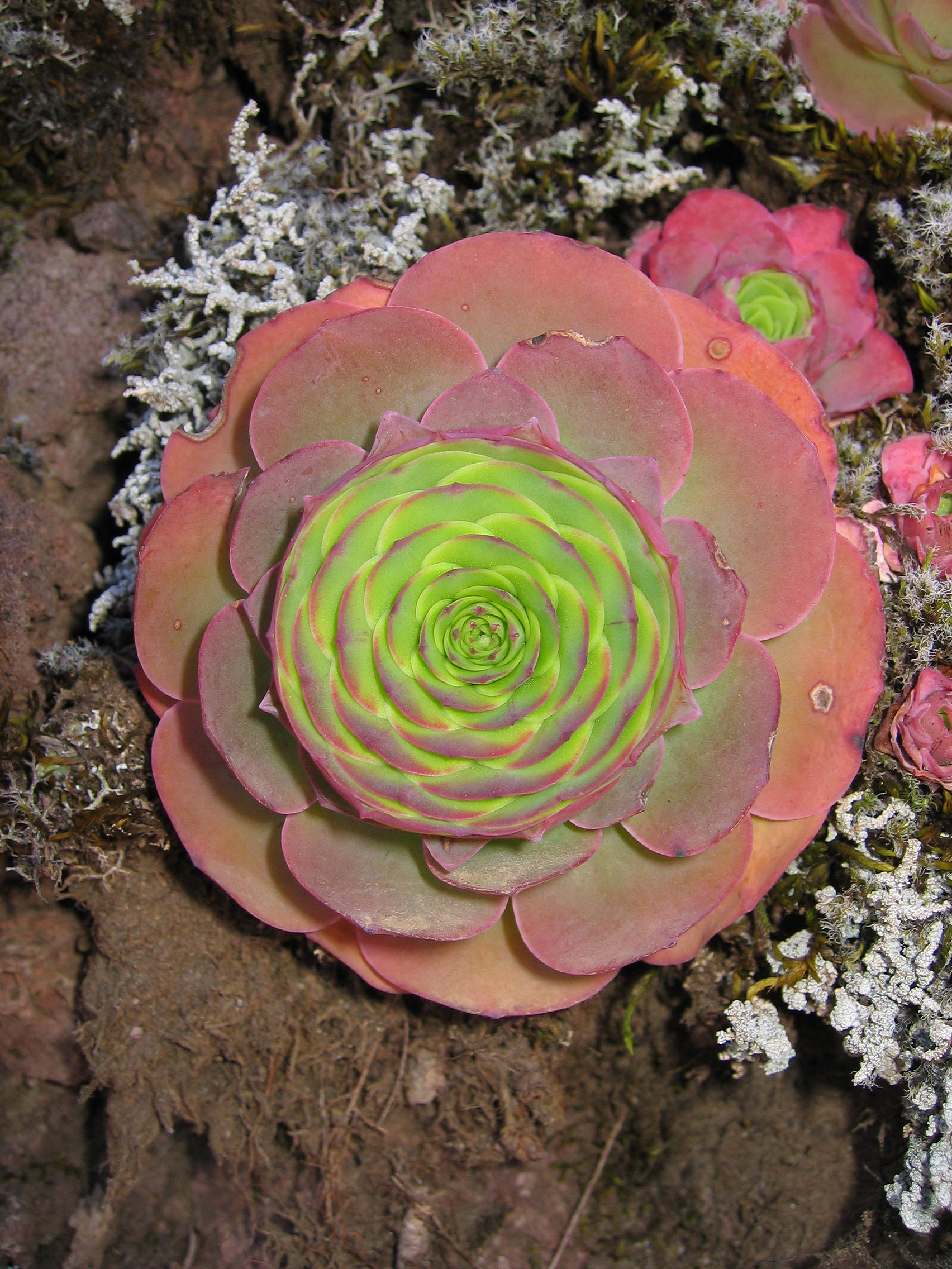 Leafs of Greenovia aurea, Pico Birigoyo, La Palma, Spain